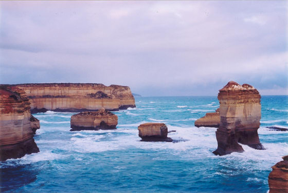 Limestone formations east of Loch Ard Gorge, Port Campbell National Park, Victoria Australia. A Scan of a photo taken by me in March 2004.